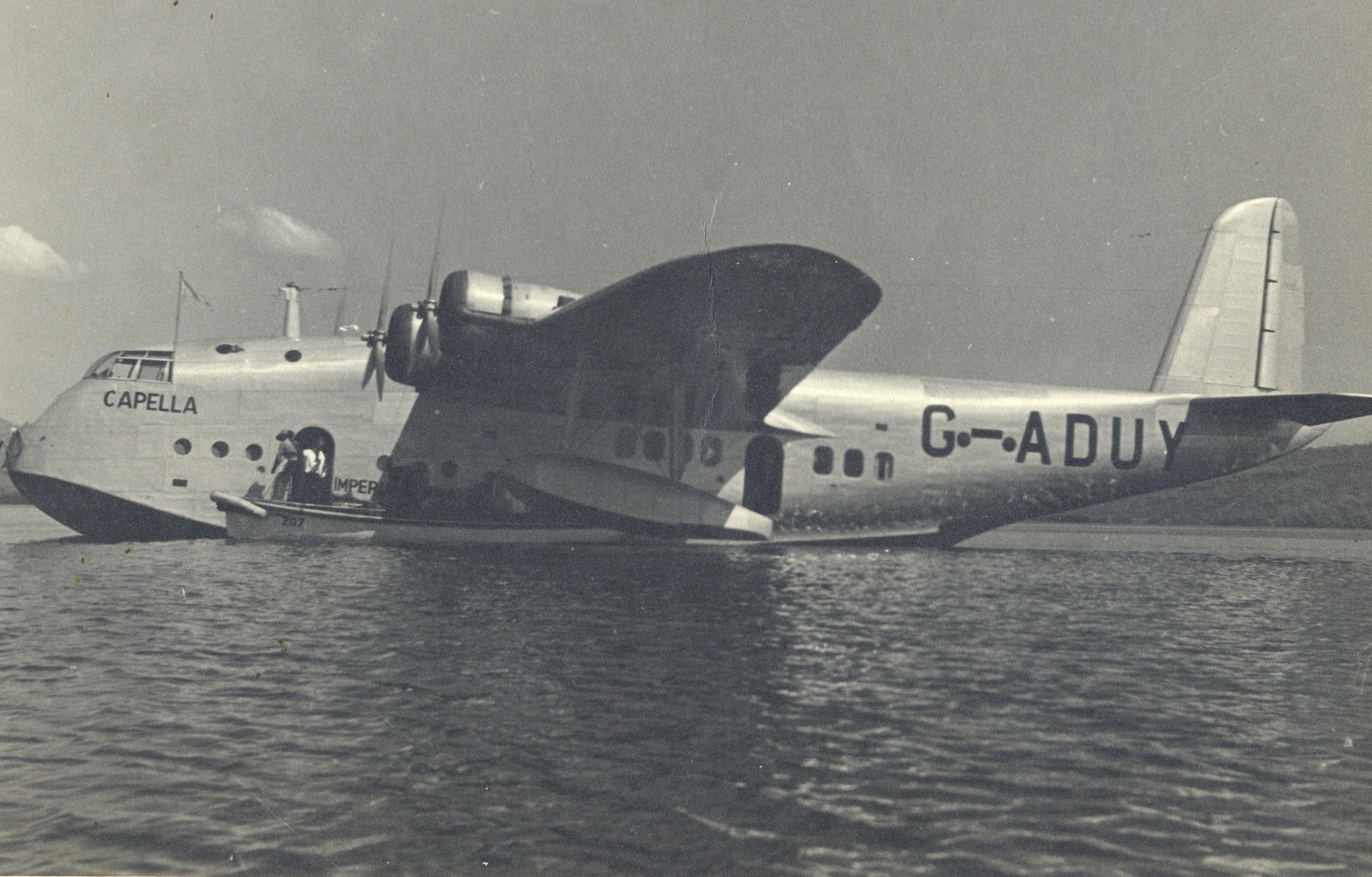 A A Koch photograph, c1940, of the flying boat Capella, of Imperial Airways. Used on the Australia run (the Kangaroo Route).